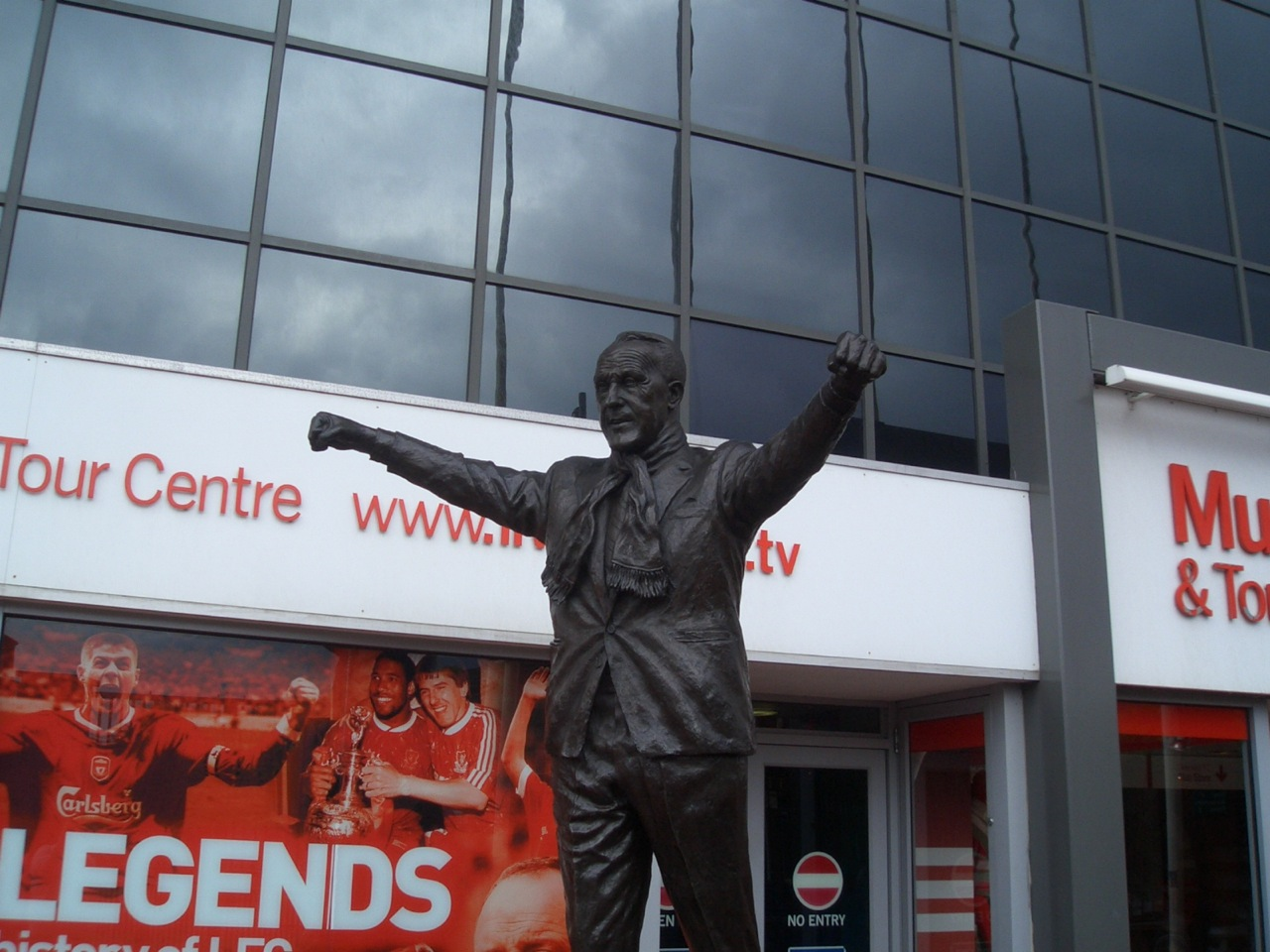 Statue of Bill Shankly outside AnfieldShankley statue